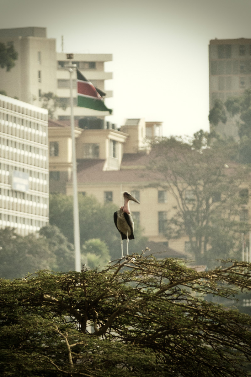 Marabou stork perched in Nairobi, Kenya.